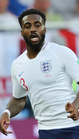 Danny Rose playing for England against Belgium at the 2018 FIFA World Cup